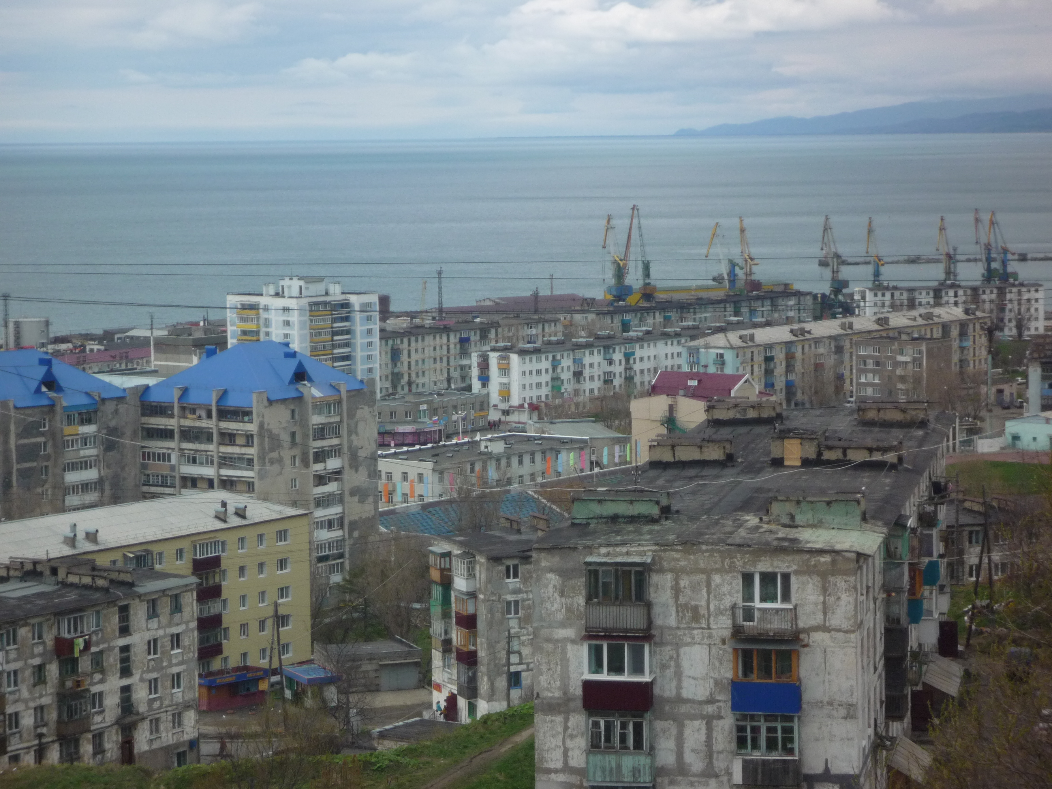 Пятый микрорайон